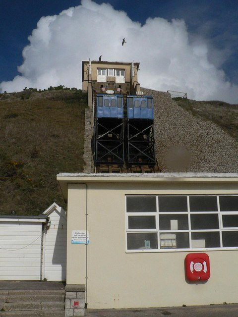 The Fisherman's Walk Cliff Railway at Southbourne, near Bournemouth, Dorset, England. For more information see the Wikipedia article Fisherman's Walk Cliff Railway .